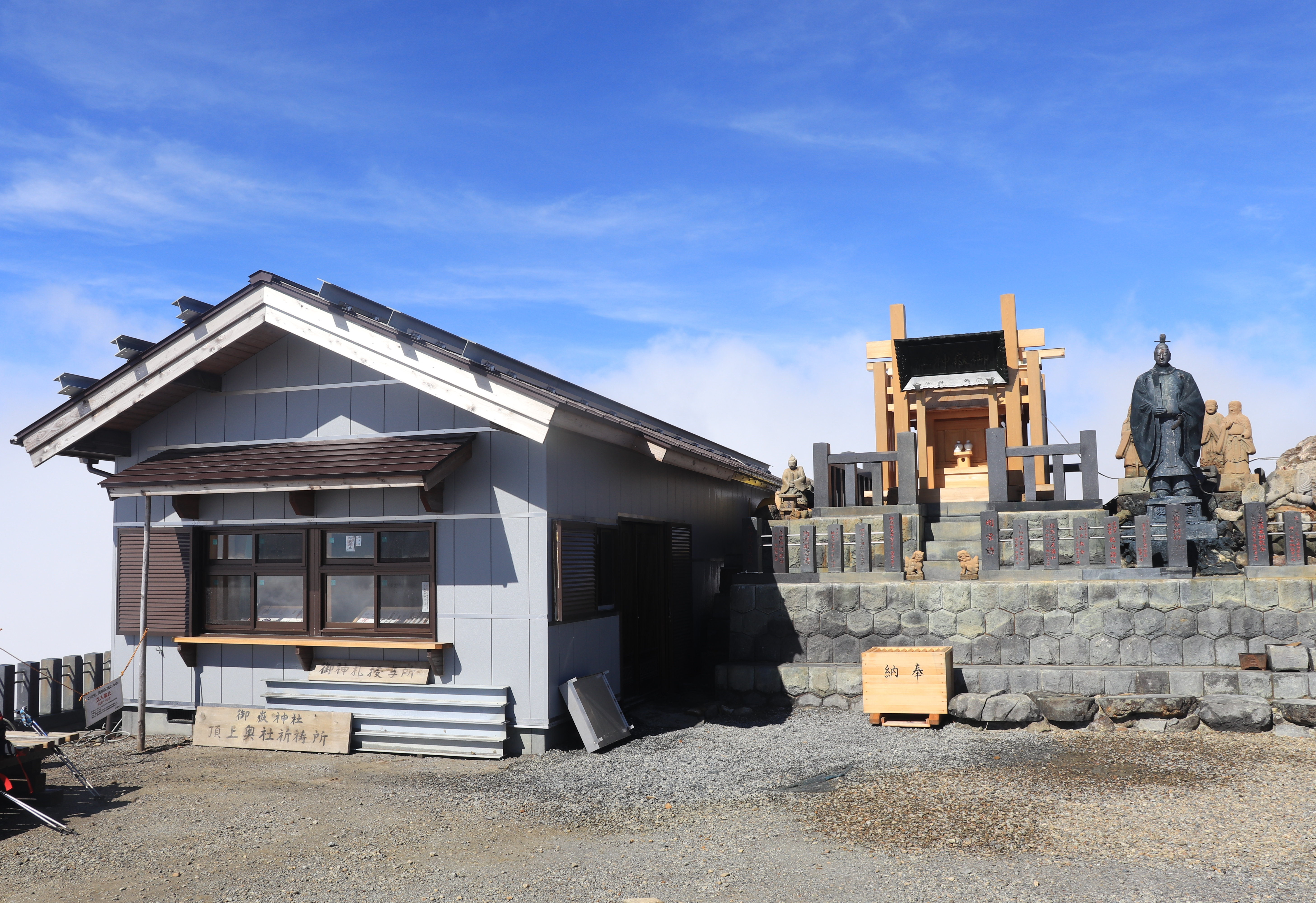 Mount Ontake Shinto shrines on the peak of Mount Ontake (Kengamine) in Otaki, Nagano Prefecture, Japan.